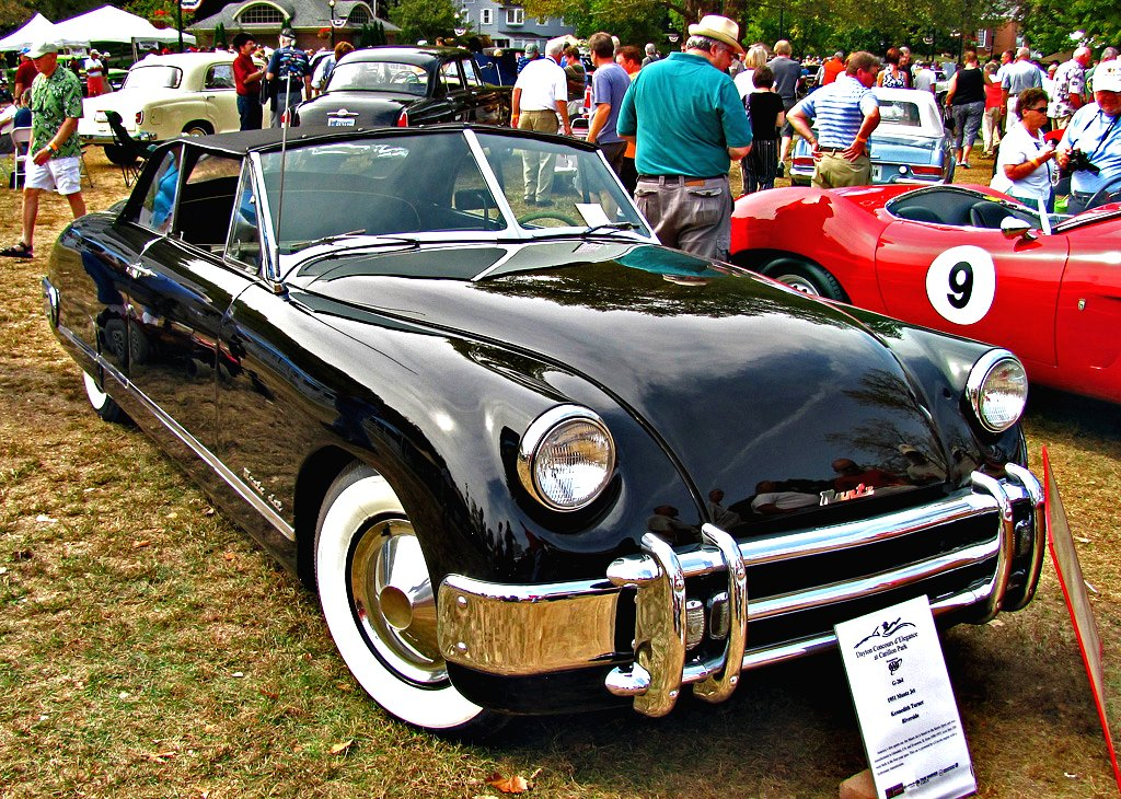 A rare Muntz at the Dayton Concours d'Elegance in Carillon Park. Less than 400 were sold between 1951 and 1954. Internet sites offer varying details on the car, but they were well-designed and had V8 engines, mostly Lincolns The Wikipedia article is good and states that the Muntz Car company lost about $1,000 on each car sold.